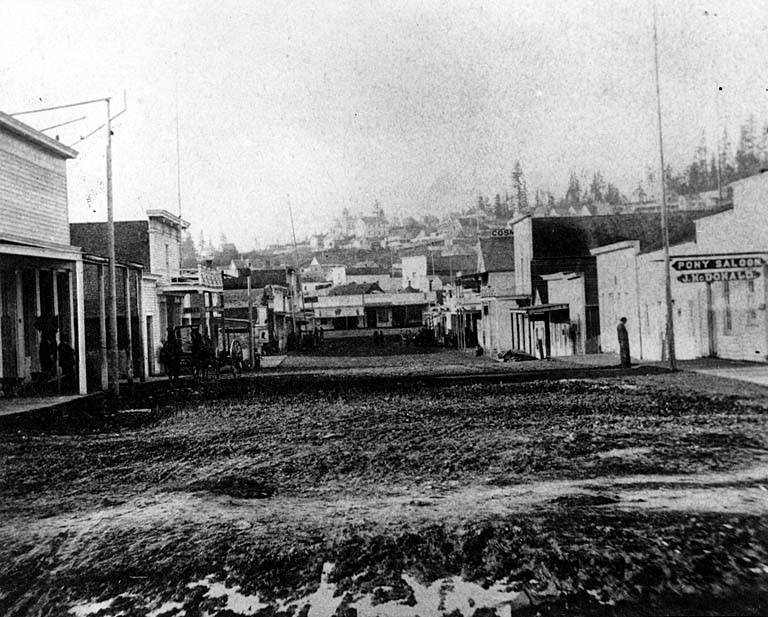 Looking north from the New England Hotel, corner of S. Main St., toward Yesler Way. Original photograph by George Moore [5]; copied by Theodore Peiser. Shows Pony Saloon (J. McDonald, prop.) on the right. Subjects (LCTGM): Streets--Washington (State)--Seattle; Bars--Washington (State)--Seattle Subjects (LCSH): First Avenue (Seattle, Wash.); Pony Saloon (Seattle, Wash.)